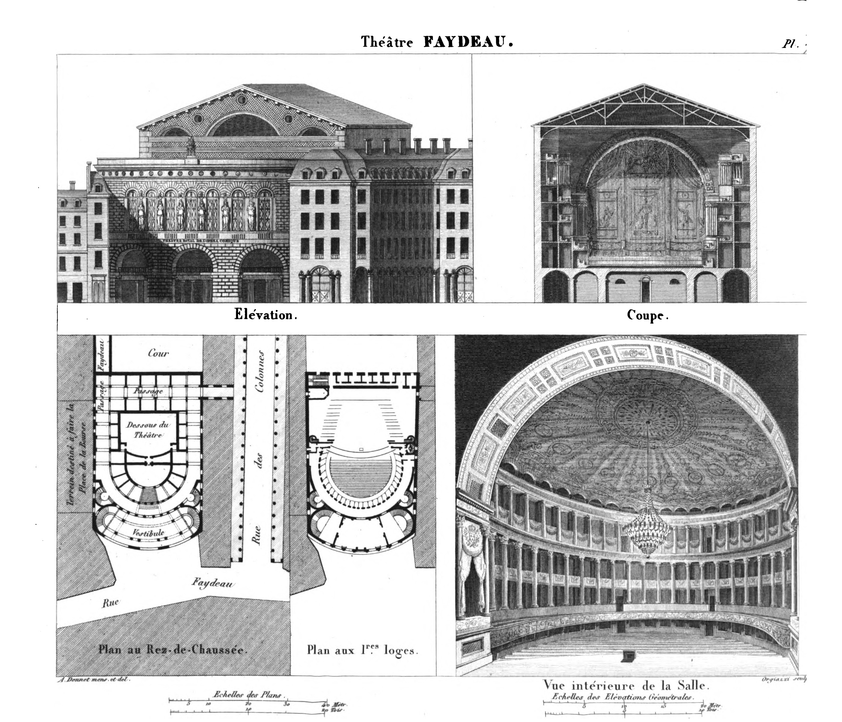 Architectural drawings of the Théâtre Feydeau in Paris, which opened on 6 January 1791 and was demolished shortly after April 1829. The unusual spelling "Faydeau" is used by the publication which is the source of this image.